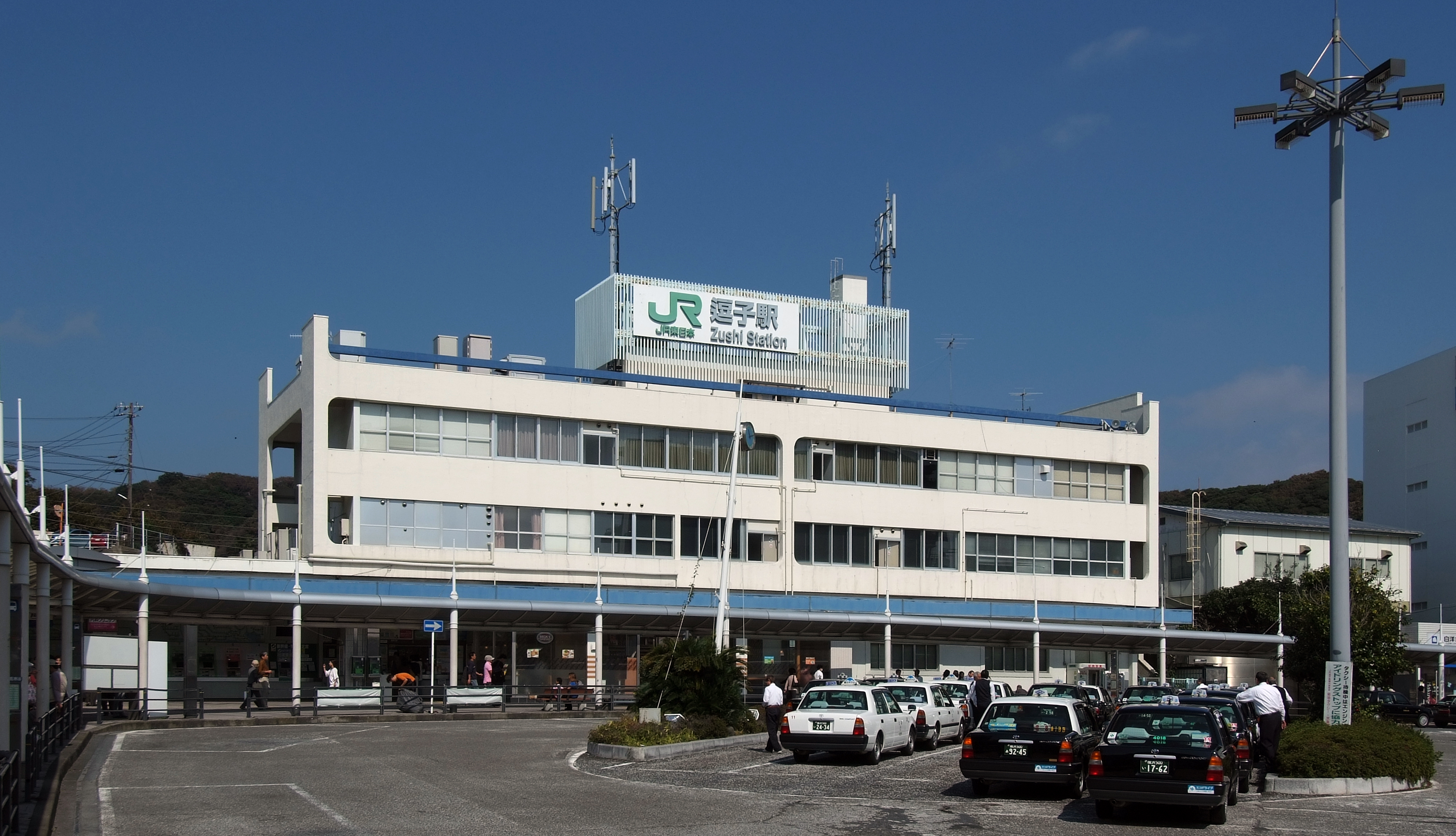 Zushi Station in at Zushi, Kanagawa Prefecture, Japan